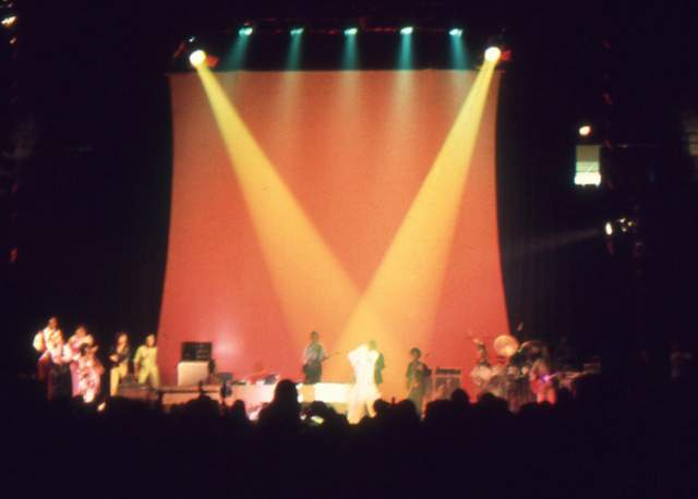 Young Americans tour at the Washington DC Capital Centre on 11 November 1974.